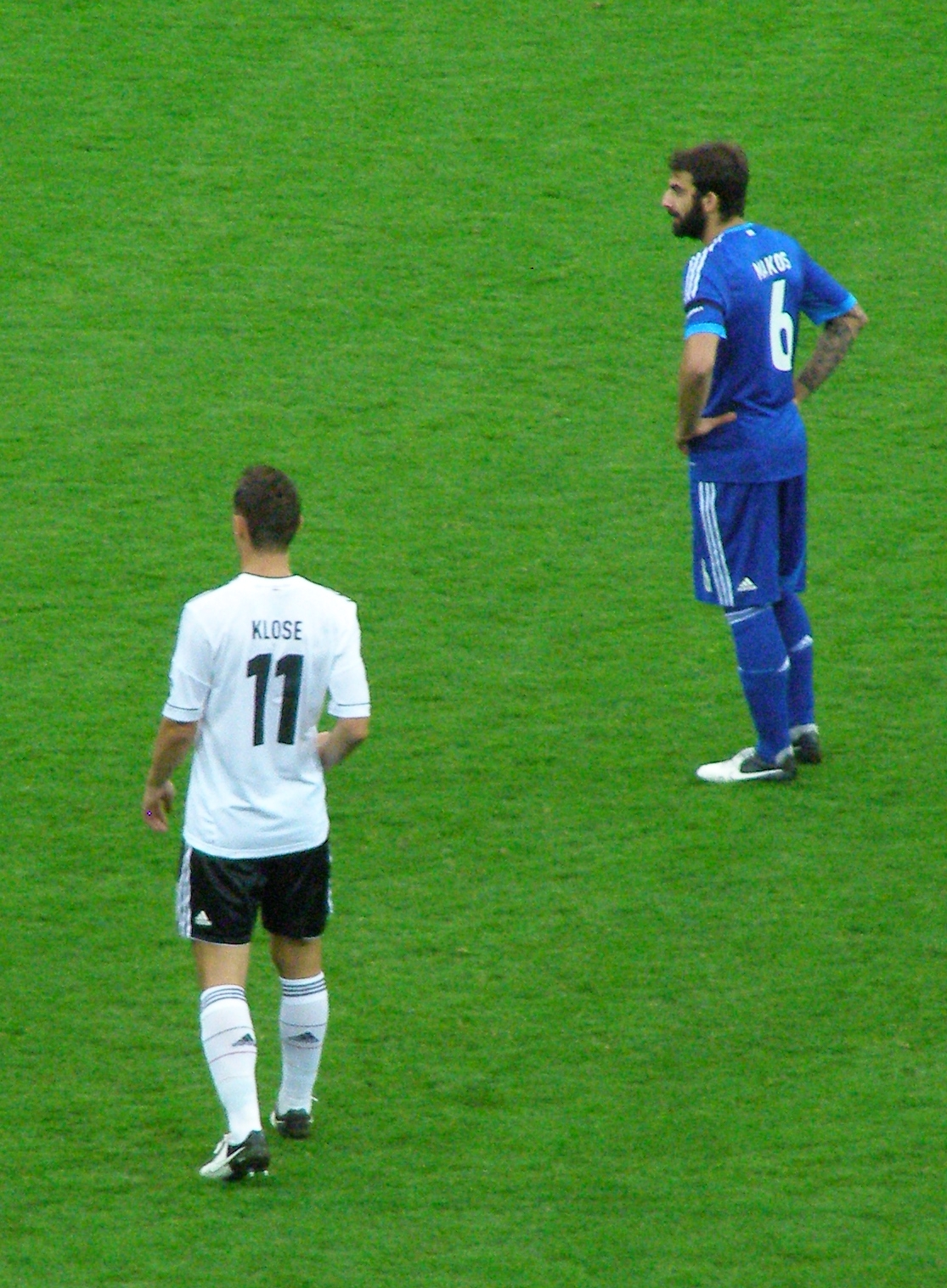 Gdańsk - PGE Arena - Euro 2012 - quarter final match Germany - Greece - Miroslav Klose and Grigoris Makos